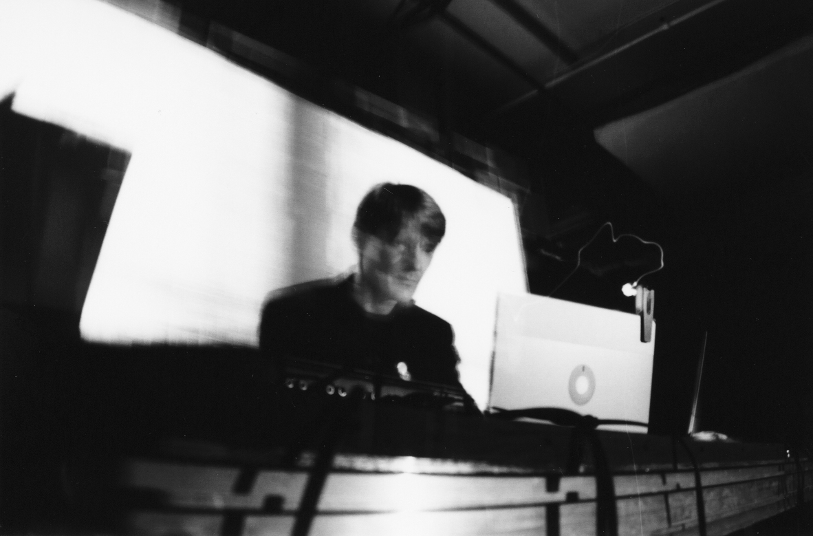 Author: Alex Reynolds Taken at Mutek 2004 (Montréal) Source: [1] © 2004 Alex Reynolds